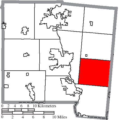 Map of the municipal and township boundaries of Miami County, Ohio, United States, as of the 2000 census, with the location of Elizabeth Township highlighted. Township borders are shown only in unincorporated areas in order to differentiate incorporated and unincorporated areas more clearly.